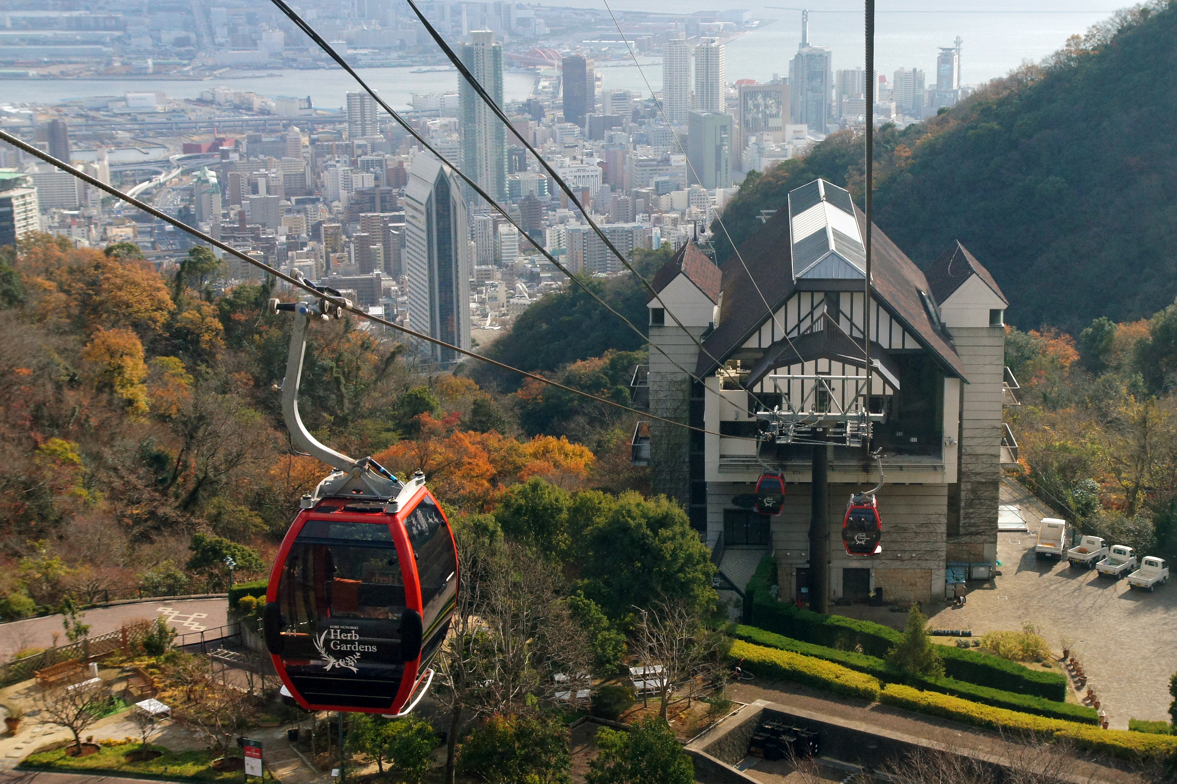 Kobe-Nunobiki Ropeway in Kobe, Hyogo prefecture, Japan.